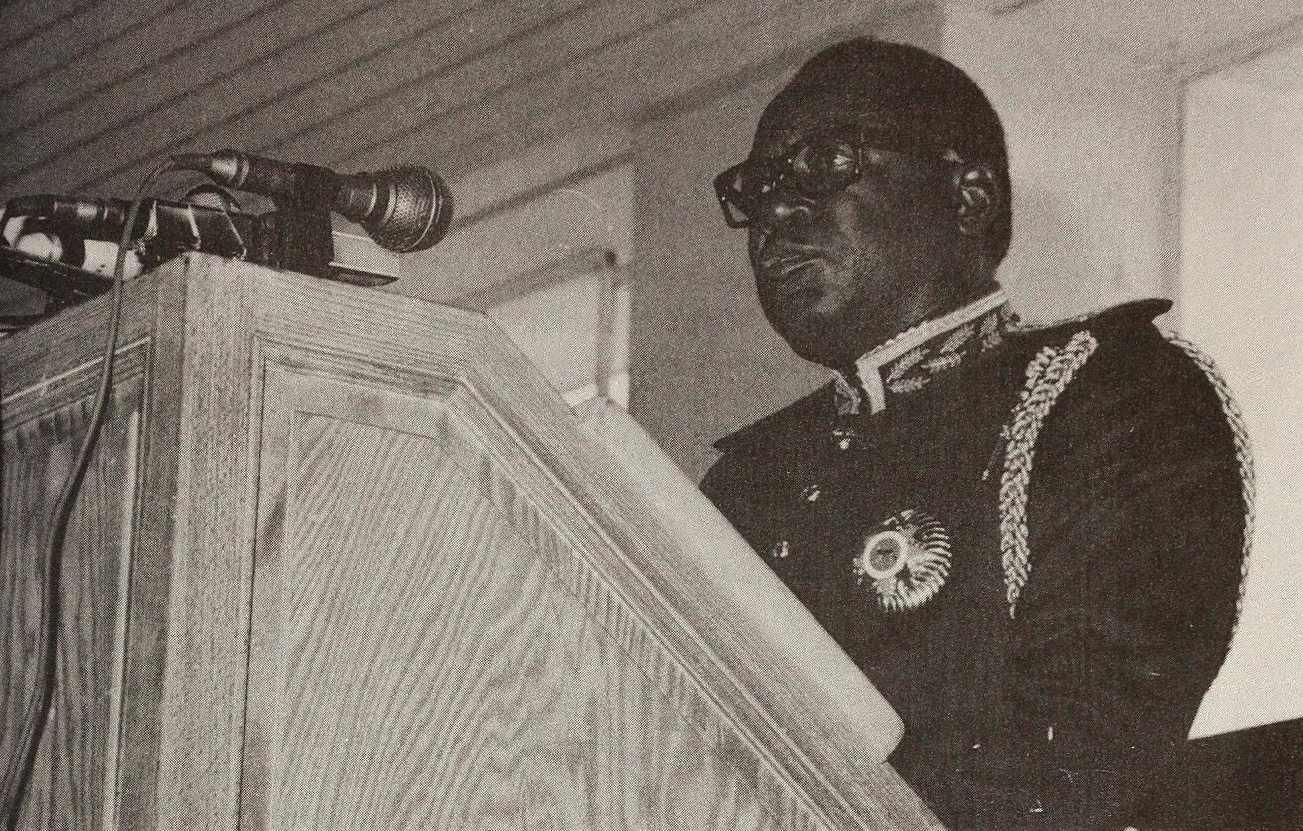 Marshal Mobutu Sese Seko, president of Zaire and supreme commander of the FAZ